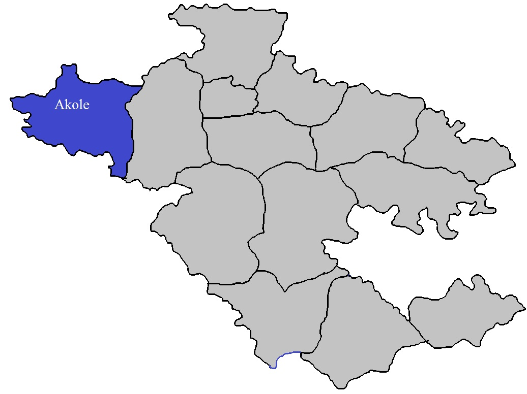 Akole Tehsil in Ahmednagar District